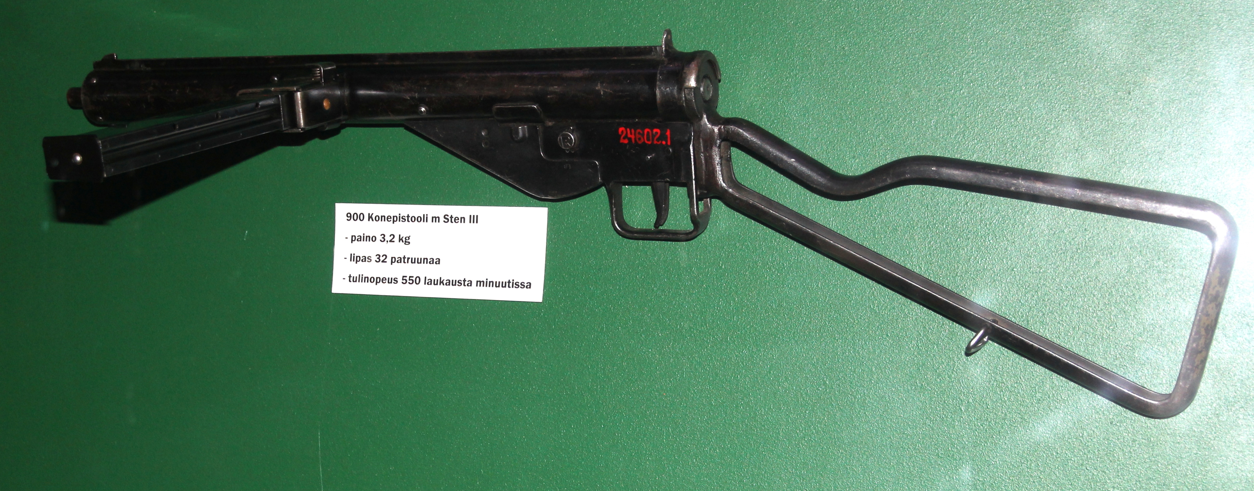 Sten Mk III submachine gun, one of approximately 76 000 Sten Mk II and III purchased by Finland in 1957-1958. hotographed in Mikkeli Infantry museum.